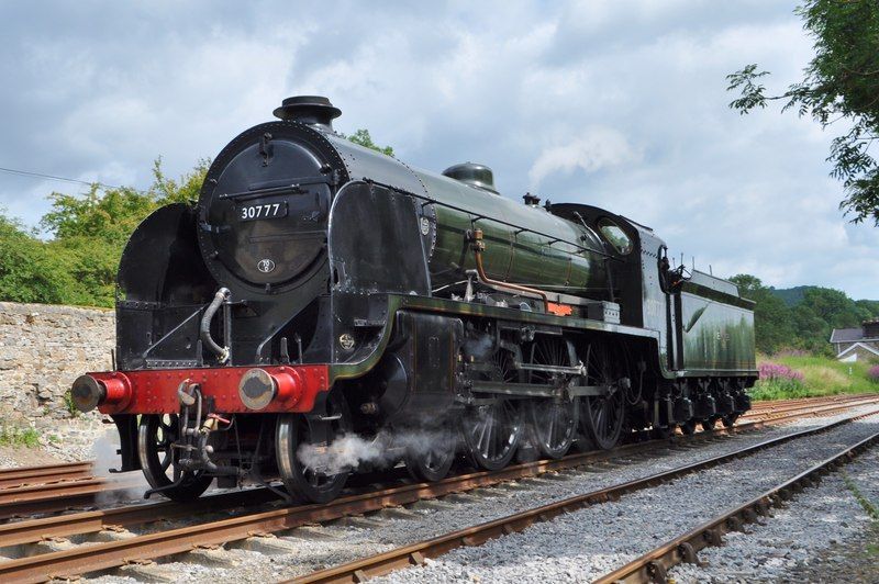 Restored locomotive Sir Lamiel near Redmire railway station